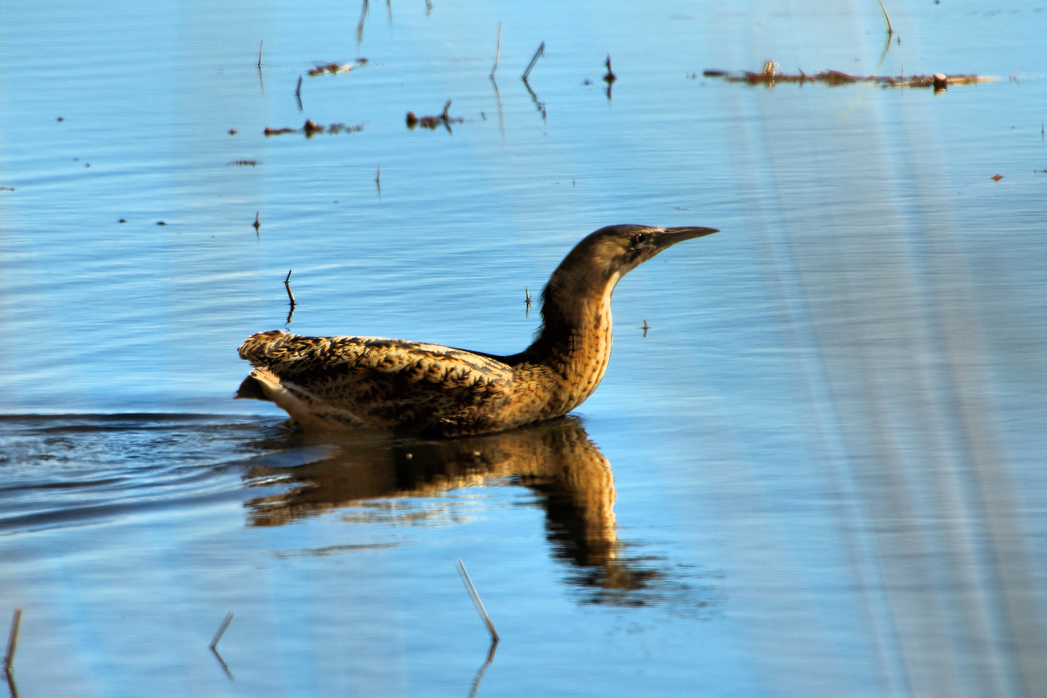 Manually focussing through reeds whilst shooting a bird that I have not ever seen before is not an easy task hence a crappy photo, but I like it lol :-)